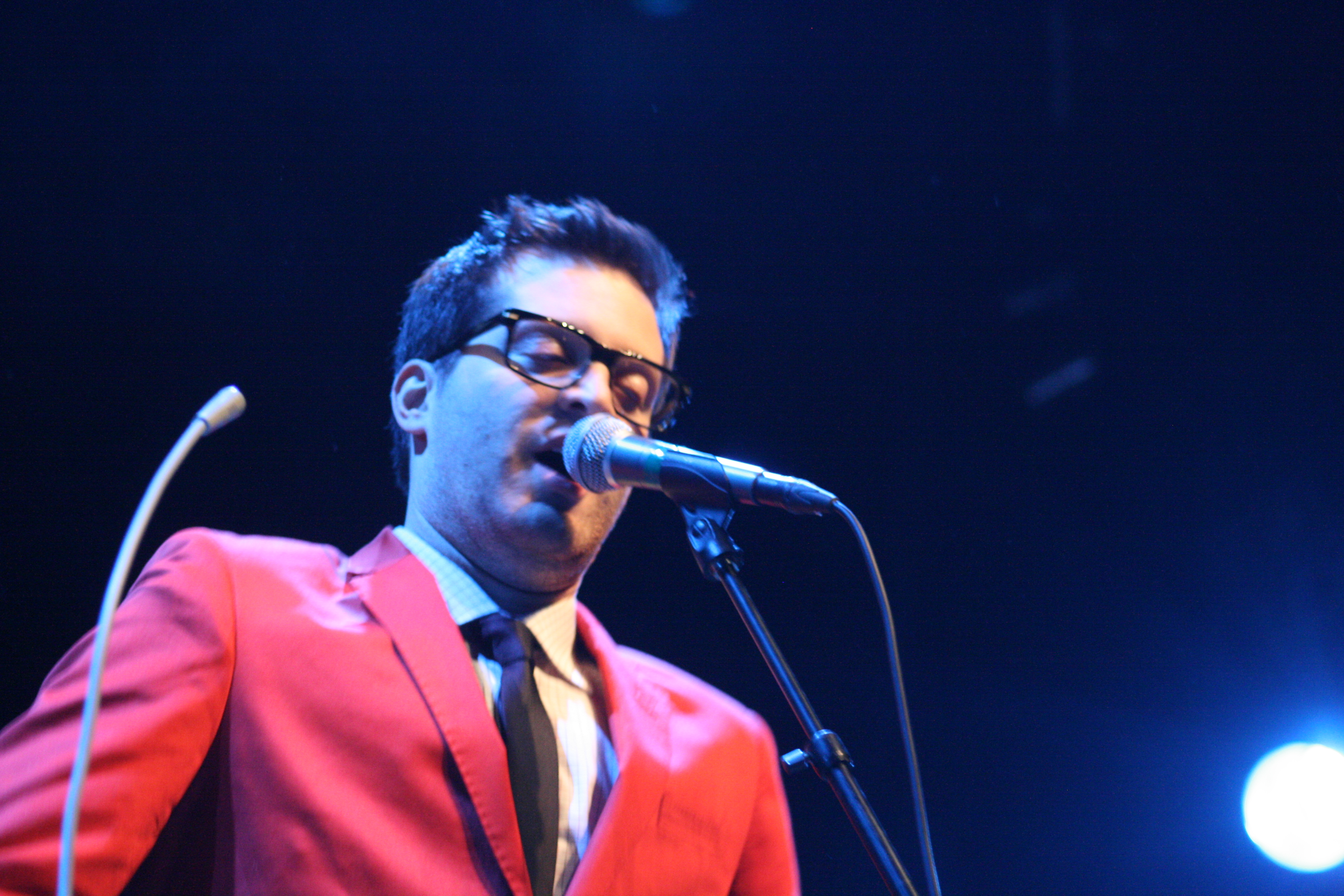 Mayer Hawthorne ::: Ogden Theatre ::: 04.07.10